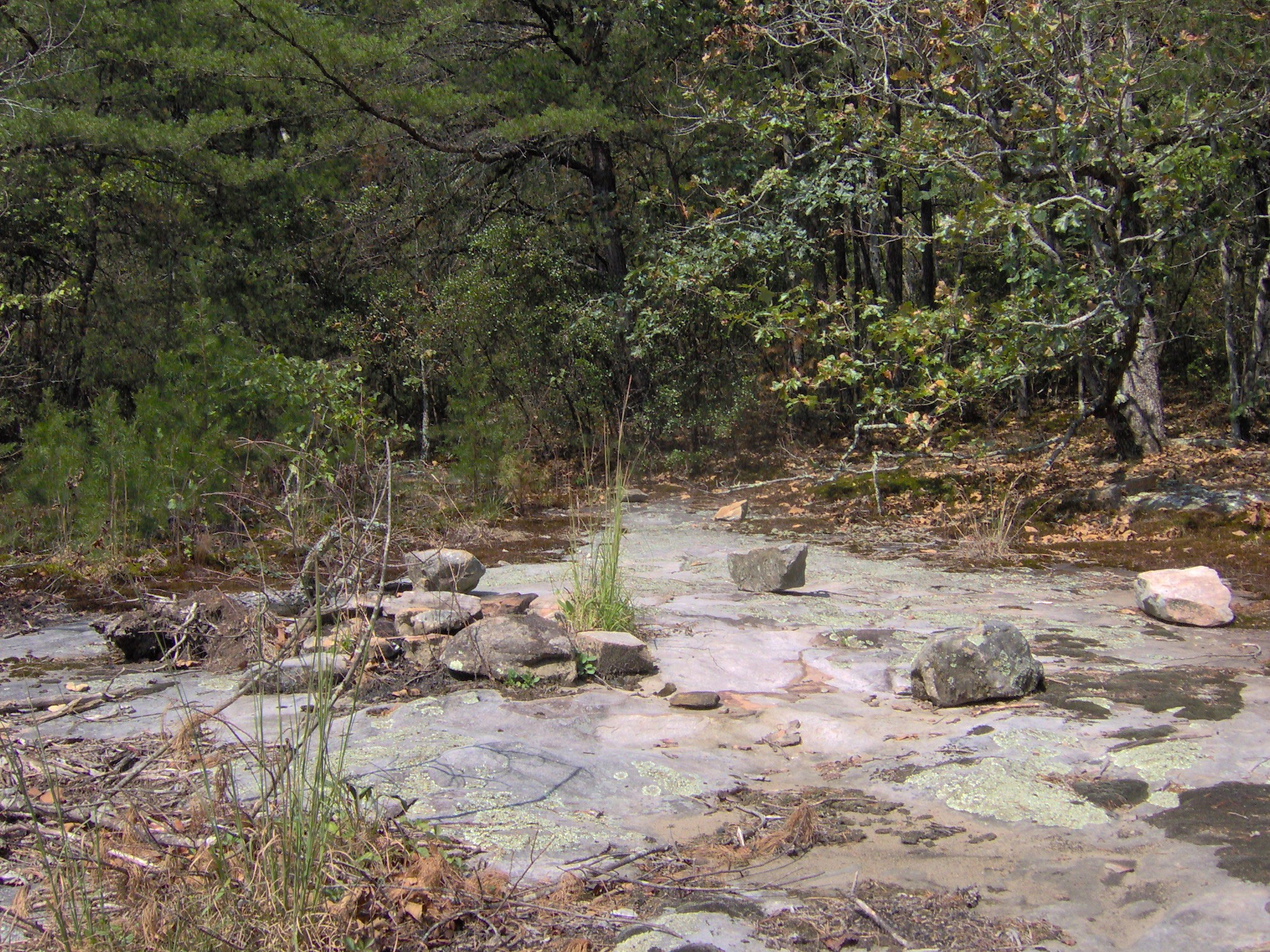 Cedar flat along the Cumberland Overnight Trail at Cumberland Mountain State Park in Cumberland County, Tennessee, in the southeastern United States. The park's backcountry campsite is located amidst the flats. The flats are situated atop a ridge and can be reached by following the Cumberland Plateau Trail for appx. 1/2 mile (0.7km), the Byrd Creek Trail for appx. 1 mile, and the Cumberland Overnight Trail for appx. 3 miles.